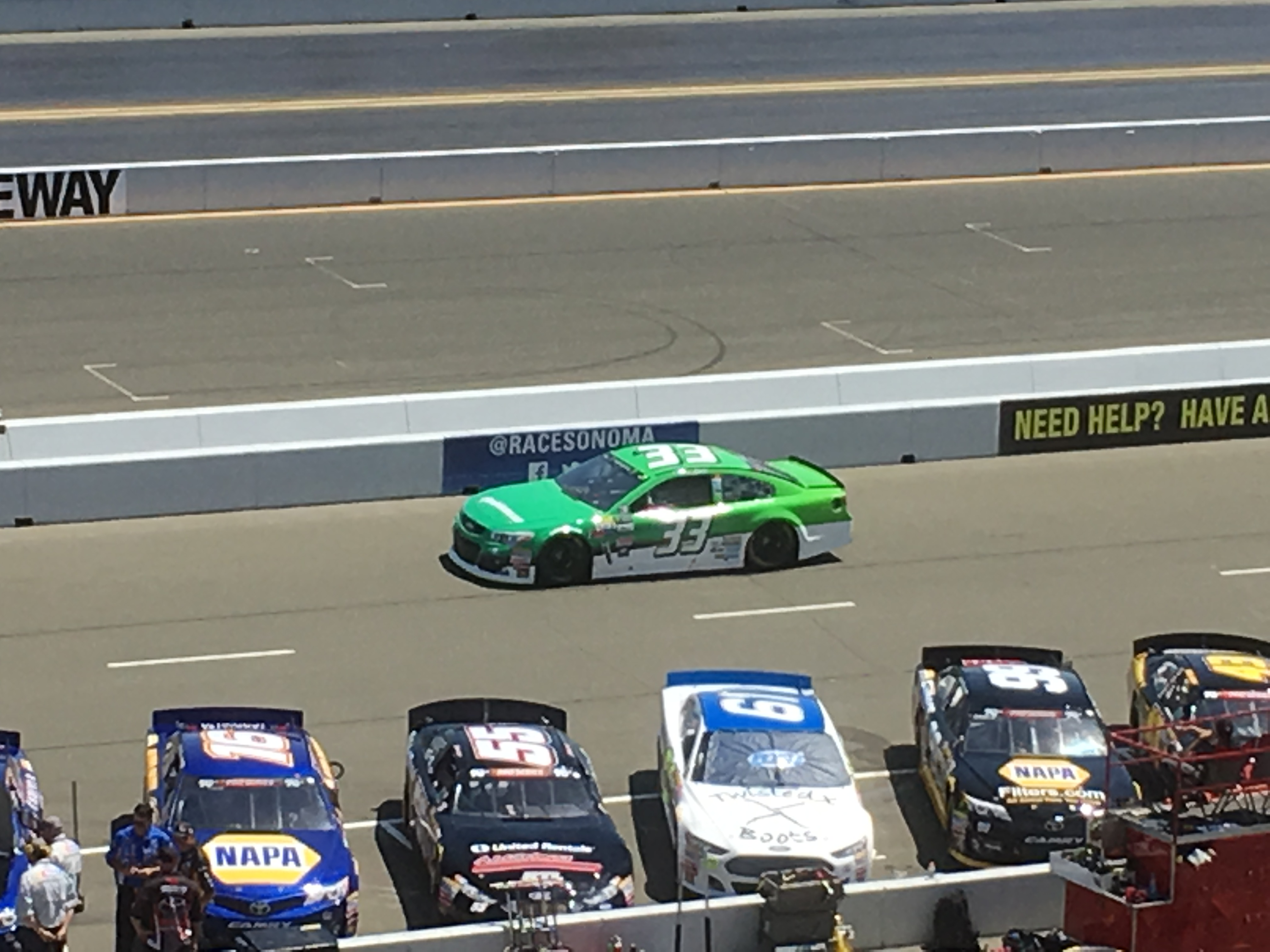 Boris Said during qualifying for the 2017 Toyota/Save Mart 350.